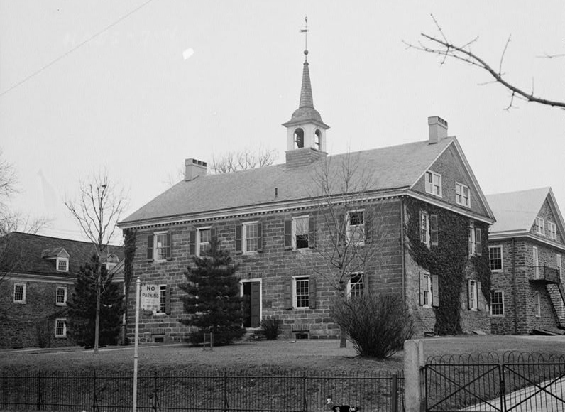 Old Germantown Academy in NW Philadelphia. On NRHPs since January 13, 1972. At Schoolhouse Lane and Greene Street in the Germantown neighborhood. HABS data: CALL NUMBER: HABS PA,51-GERM,33-3 MEDIUM: Measured Drawing(s): 17 (18 x 24 in.) Photo(s): 8 (4 x 5 in. and 5 x 7 in.) Data Page(s): 2 plus cover page Photo Caption Page(s): 1 CREATOR: Historic American Buildings Survey, creator Survey number HABS PA-7-4 Building/structure dates: 1760 initial construction